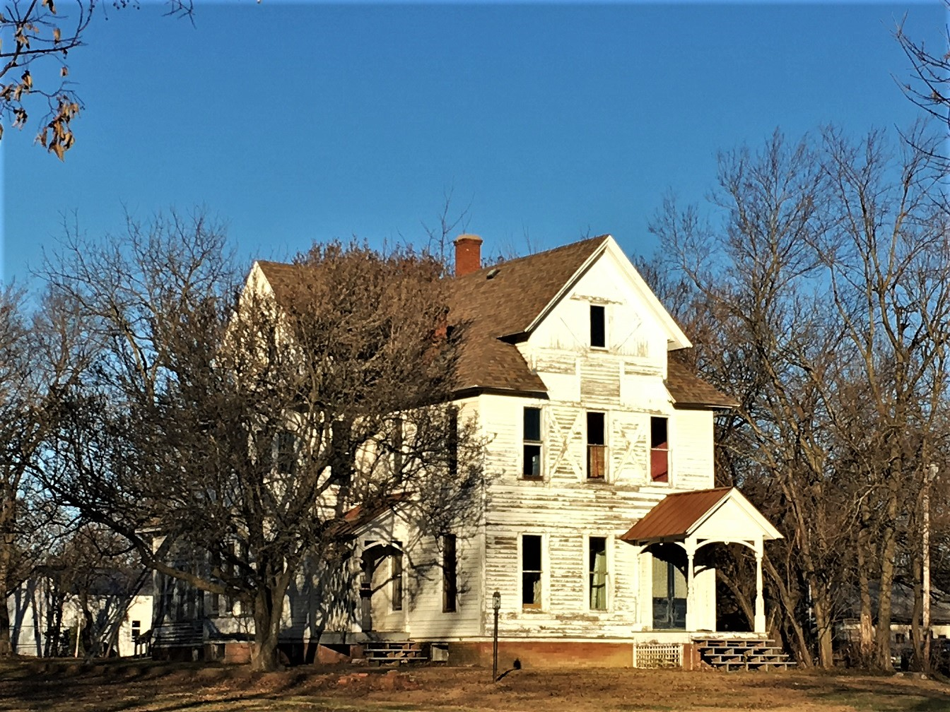 Julius A. Wayland House Residence is distant from the street. Telephoto view.